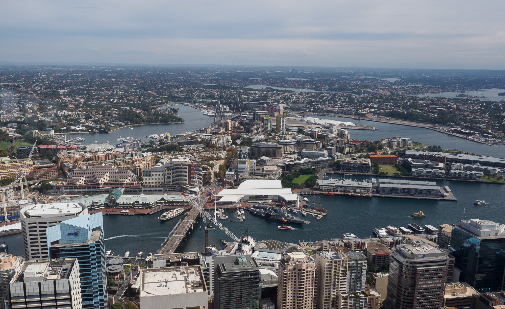 Sydney Tower looking forwards darling harbour